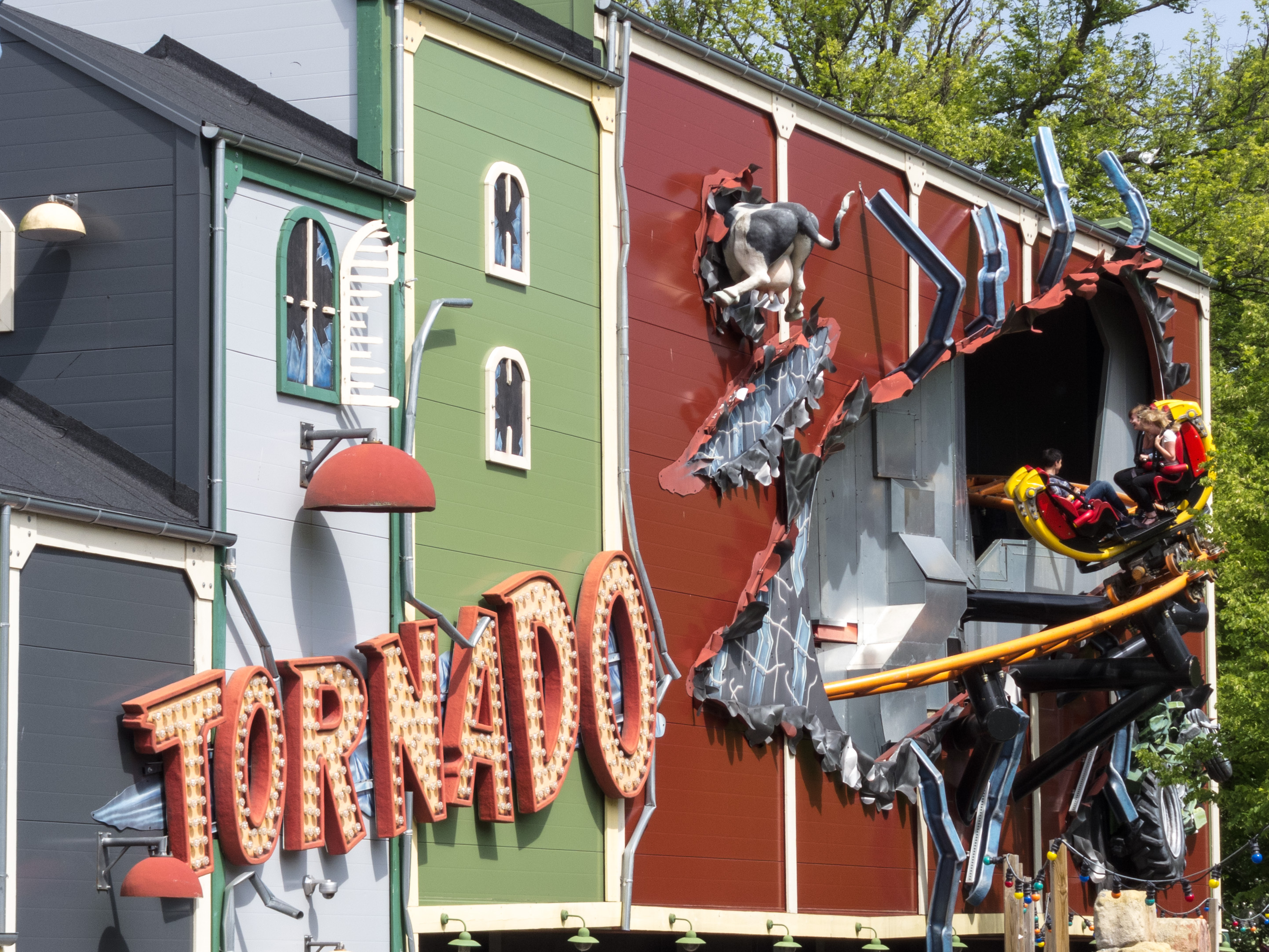 Intamin Spinning Coaster Tornado in Dyrehavsbakken, Klampenborg, Danmark